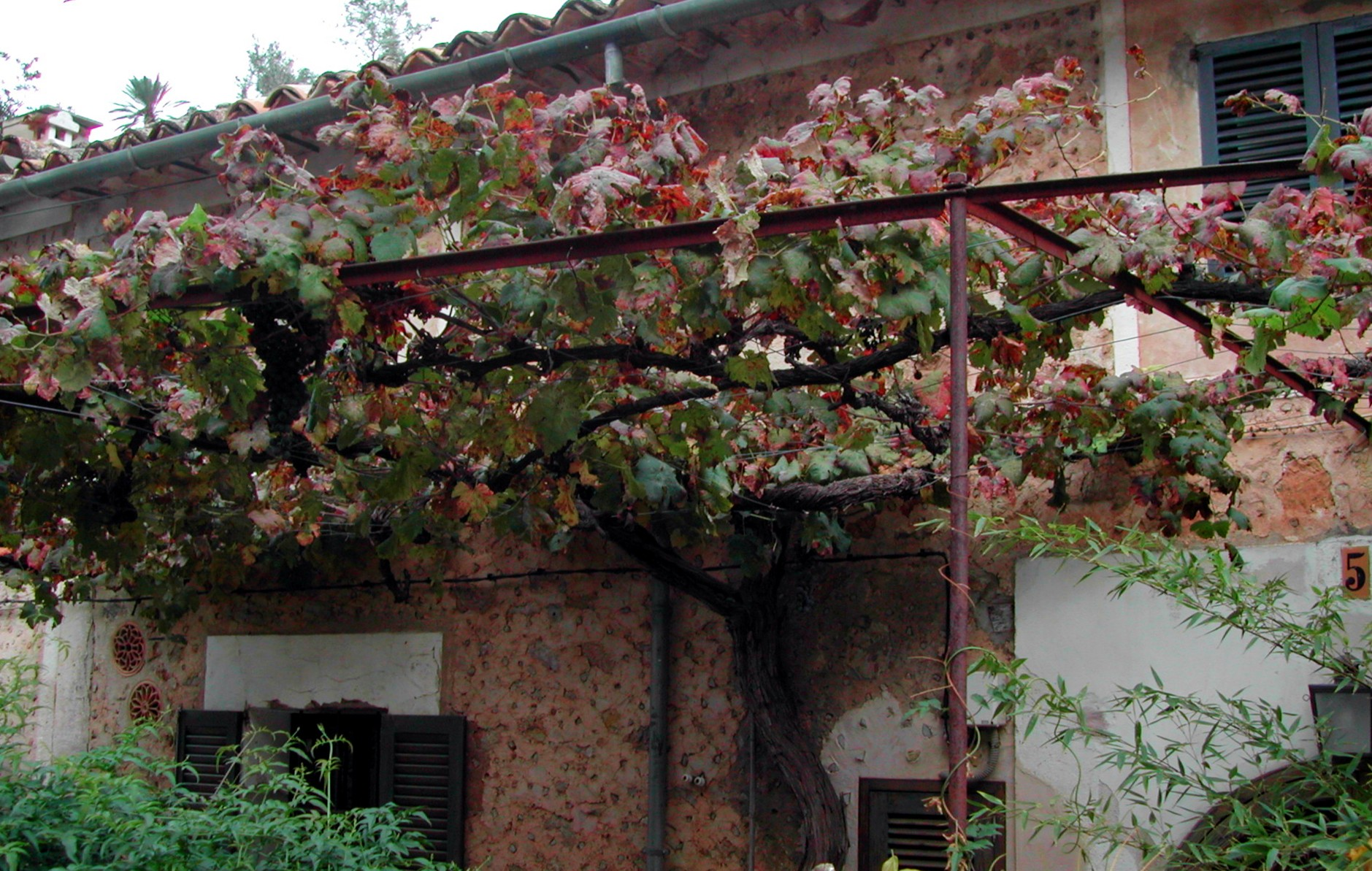 Grapevine bower in the front of a house at Deià